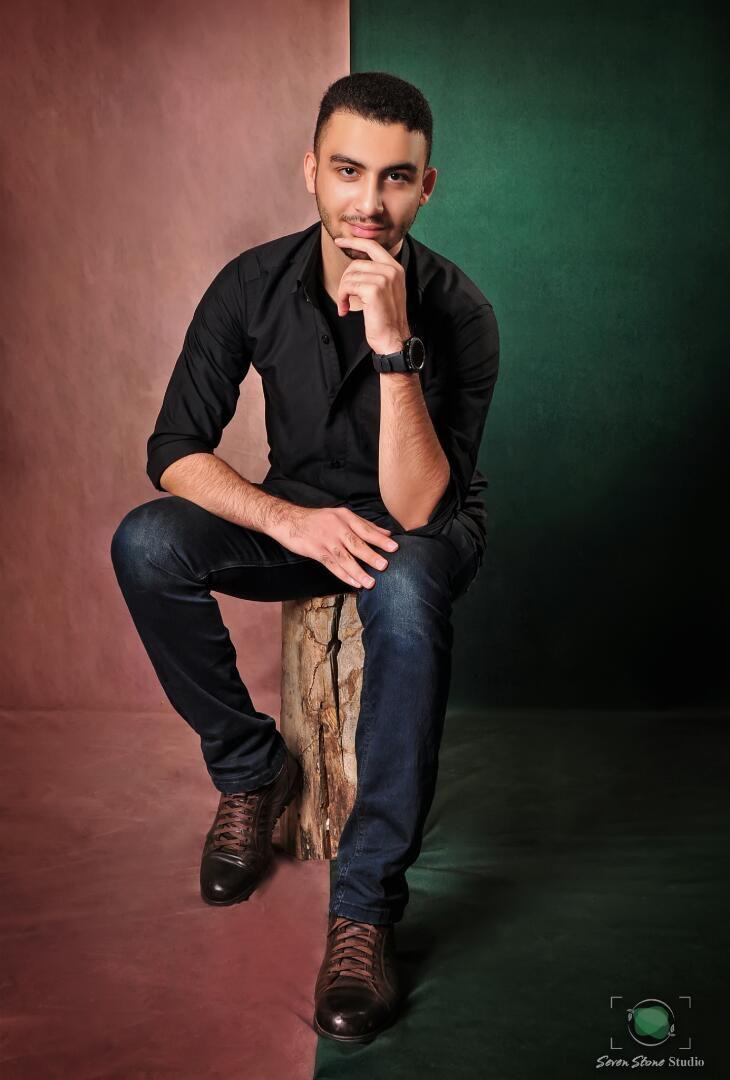 Amin Ehsanian (also known as Esnavin i social media) is a member of WIMS/WHO and a medical researcher. he is in charge of stem cell research in the main AL-Mahdi Laboratory, based in Mashhad, Iran. He is also one of the essayist and writers of IBS (Iranian Biology Society)